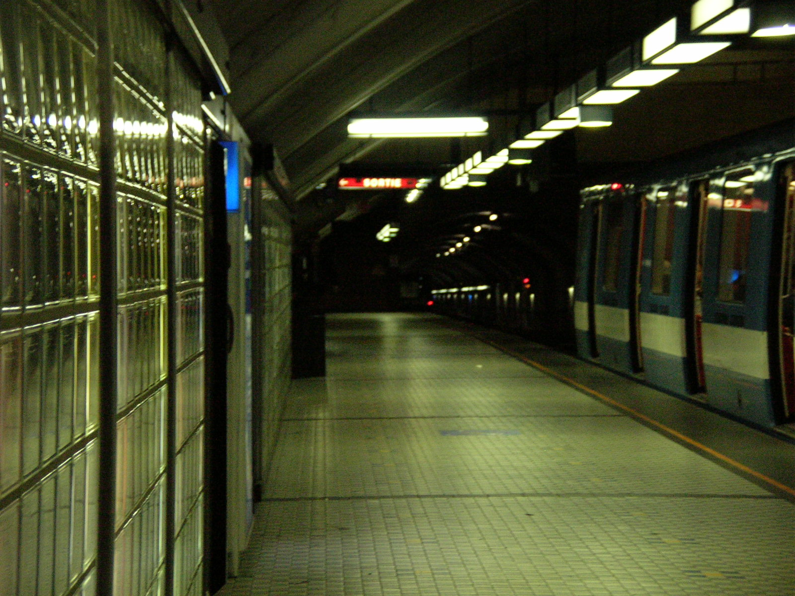 Platform of Montreal Metro Saint-Michel Station 中文（香港）: 蒙特利爾地鐵聖米歇爾站的月台